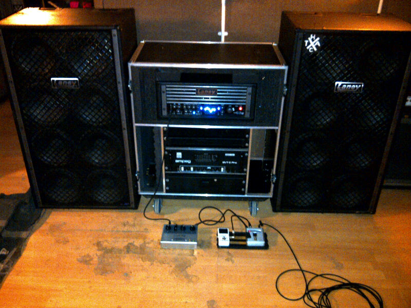 Tarrant Anderson (Sleeping Souls) Bass Setup